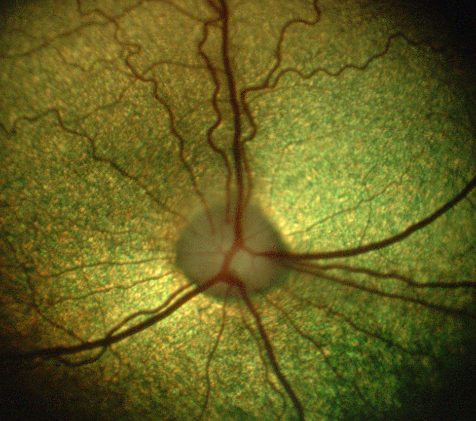 Dog retina showing optic disc (white mass) and retinal vasculature [epiCam]